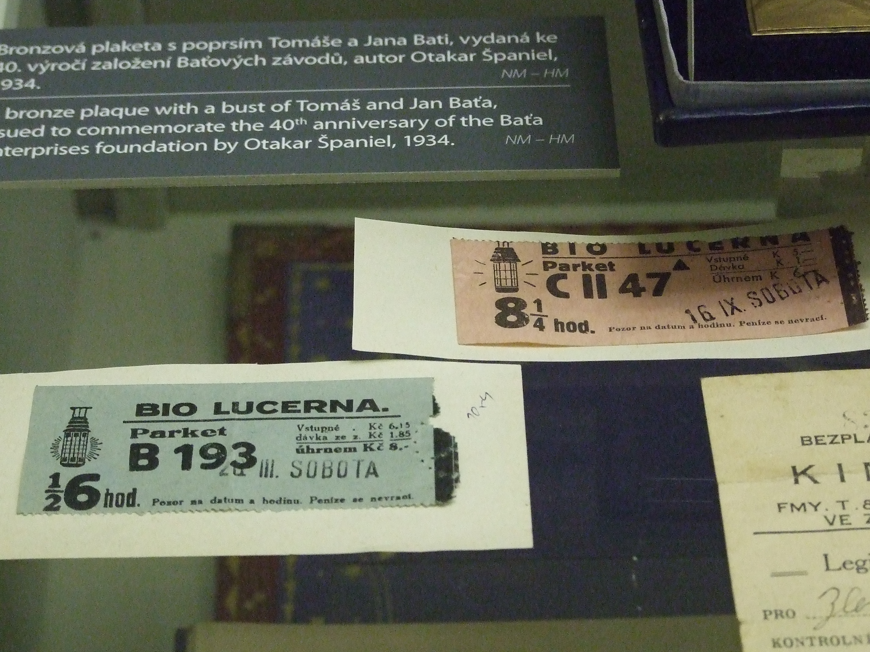 The Republic exhibition, National Museum in Prague